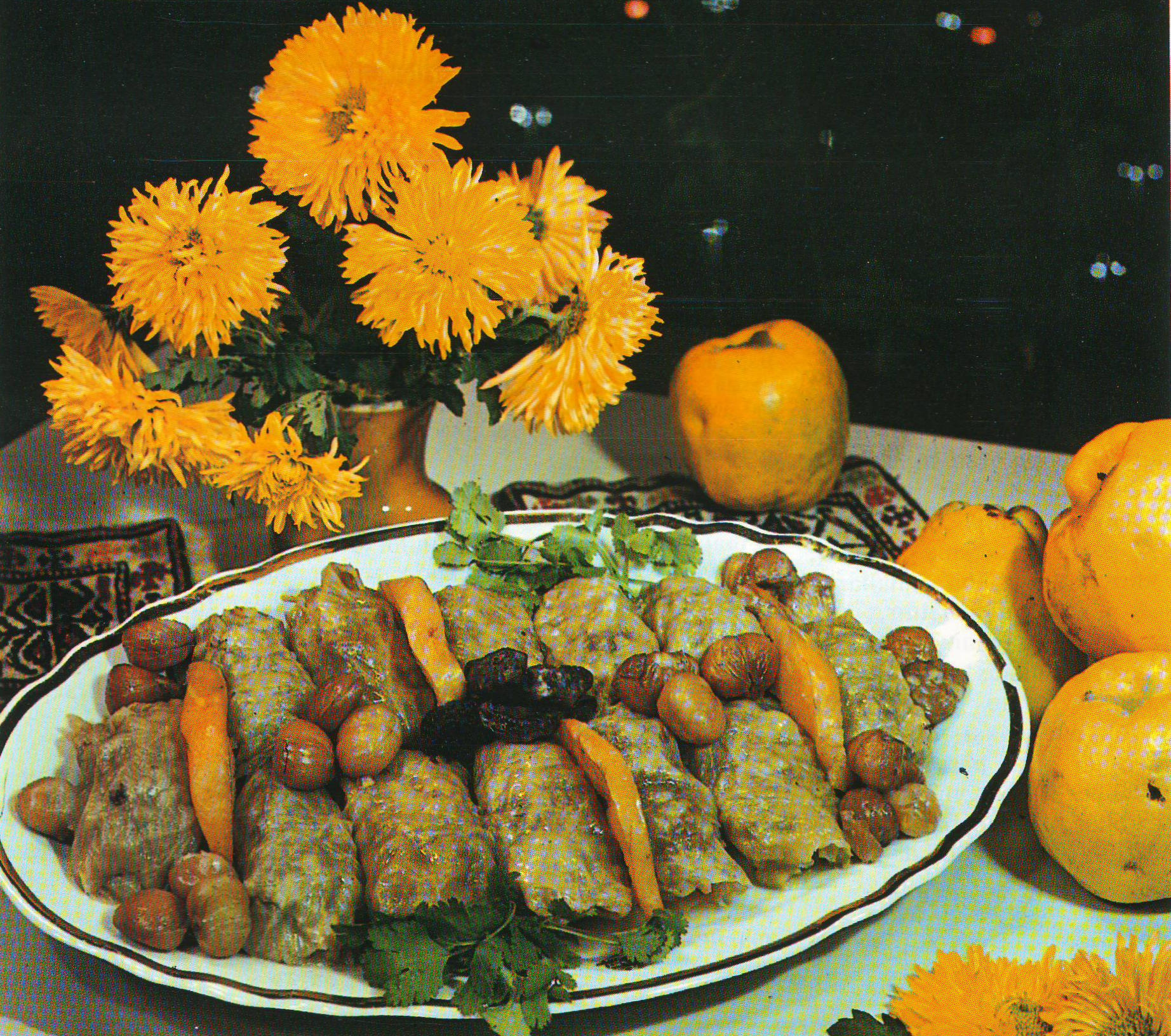 Cuisine of Azerbaijan: Kyalam dolmasy (stuffed cabbage leaves)